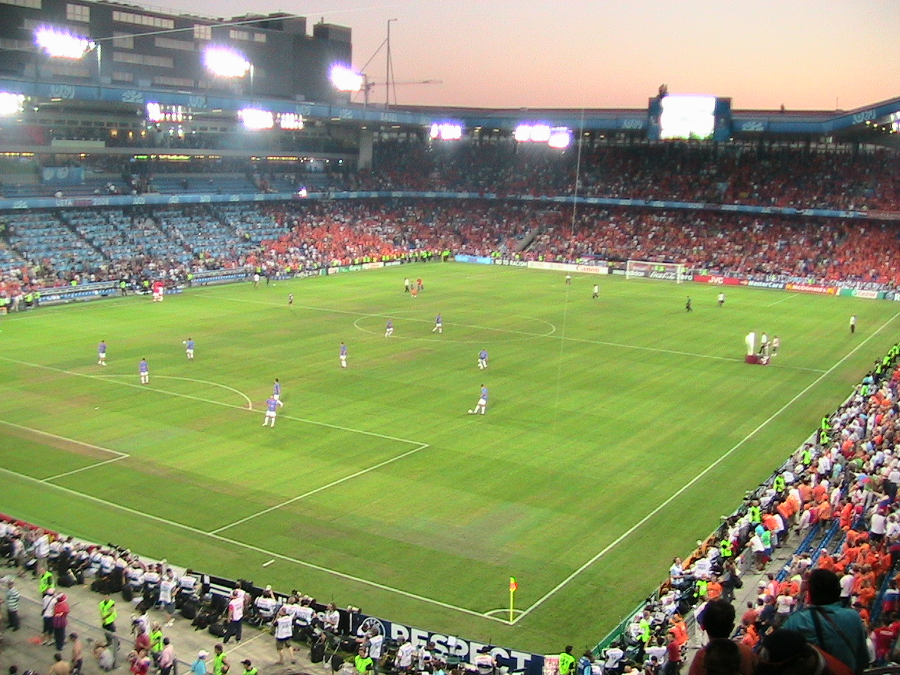 Euro 2008. 21 June 2008. Basel